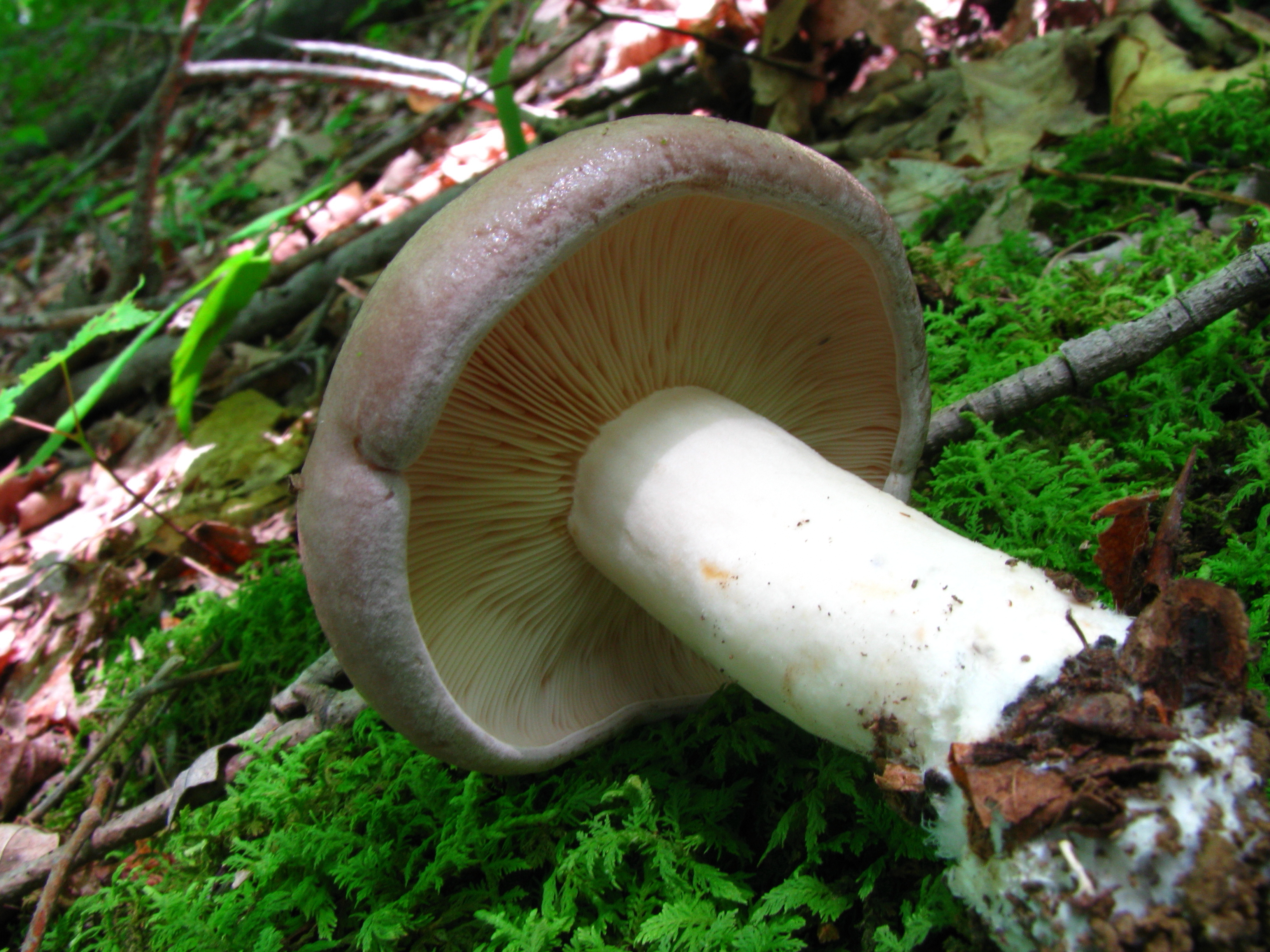 The milk mushroom Lactarius argillaceifolius var. argillaceifolius. Specimen photographed in Strouds Run State Park, Athens, Ohio, USA.